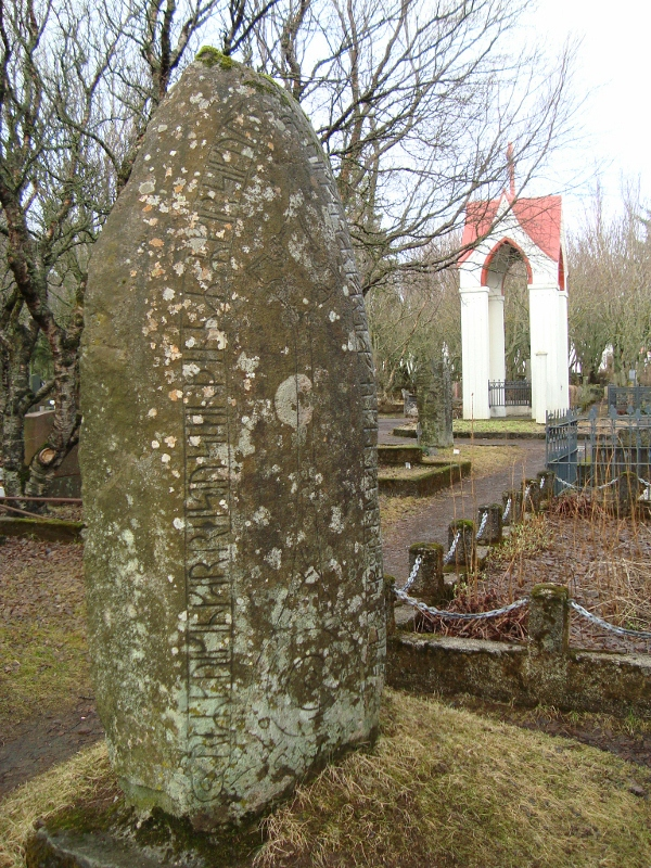 Legsteinn Sigurðar Vigfússonar og Ólínu konu hans. Bautasteinn sem reistur var á leiði Sigurðar og Ólínu konu hans í Hólavallakirkjugarði í Reykjavík. Sigurður Vigfússon (1828 - 1892).